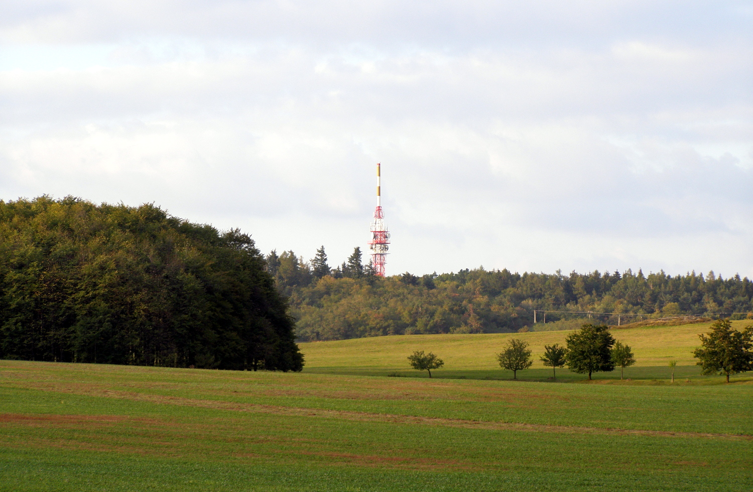 Klučov. Klučov hill (595 m) with a transmitter mast